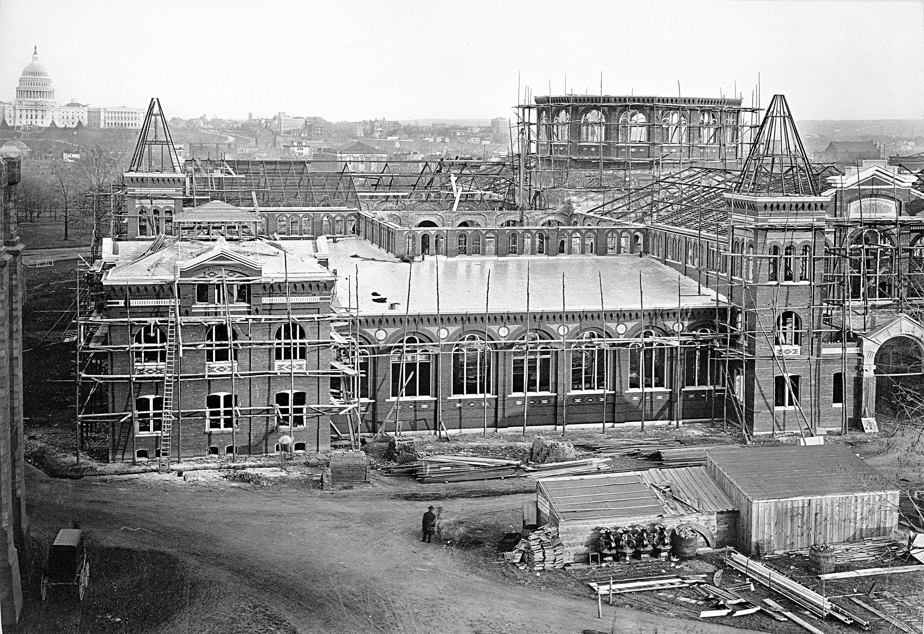 Construction of the Smithsonian's Arts and Industries Building in Washington, D.C. with the Unites States Capitol in the background. The Arts and Industries Building, designed by Adolf Cluss and Paul Schulze, is a National Historic Landmark and the second oldest Smithsonian museum located on the National Mall. The United States National Museum Building, now the Arts and Industries Building, designed by Architects Cluss and Schulze, is under construction, December 1879. Scaffolding is in place around the exterior of the building. The center rotunda has been partially constructed. This view is from the South Tower of the Smithsonian Building, looking east towards the United States Capitol. A very small portion of the Smithsonian Institution Building can be seen on left. The ceremonial ground breaking for the new museum was on April 17, 1879.